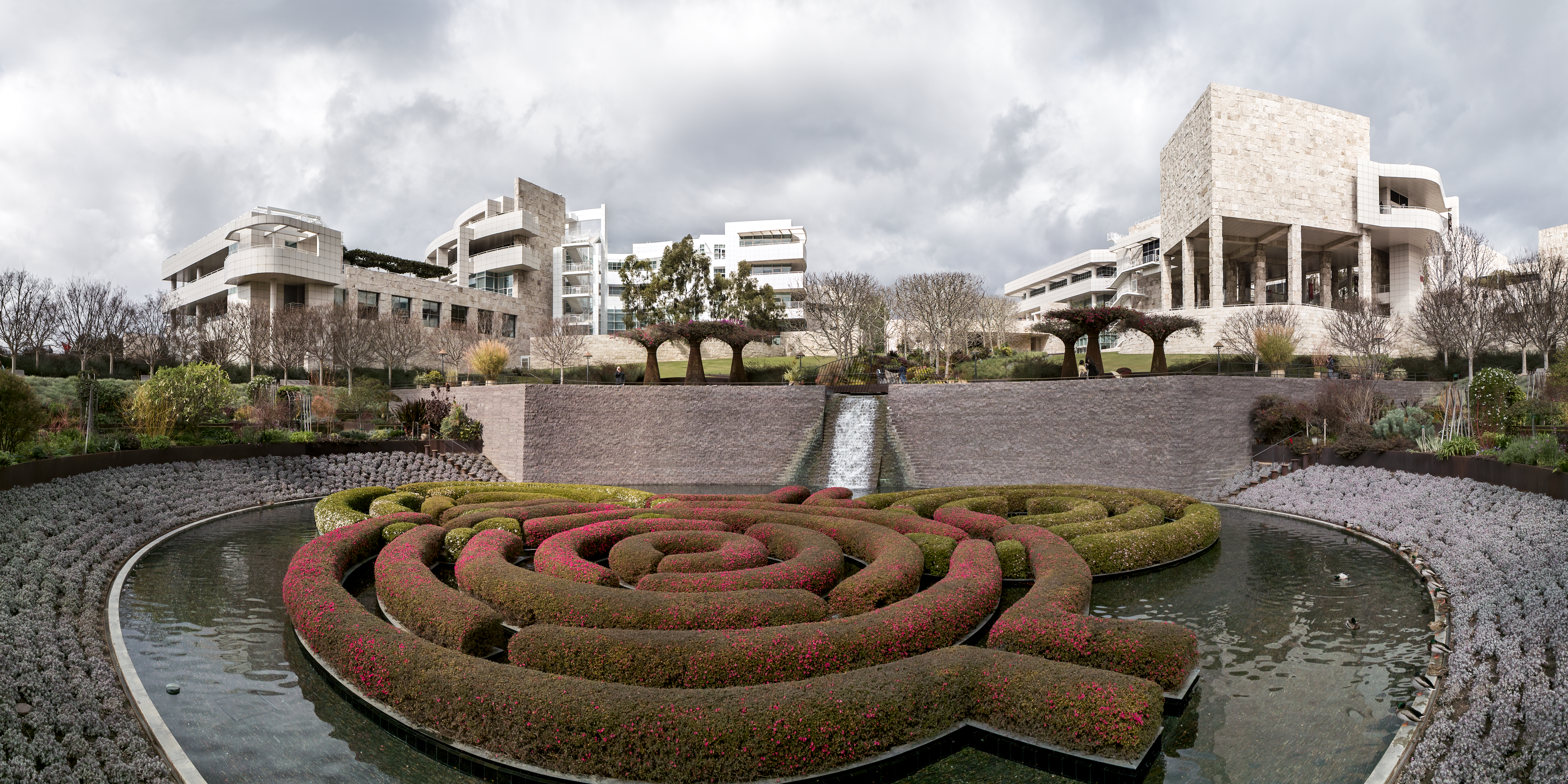 The Getty Center as seen from the Central Garden on February 8, 2009.